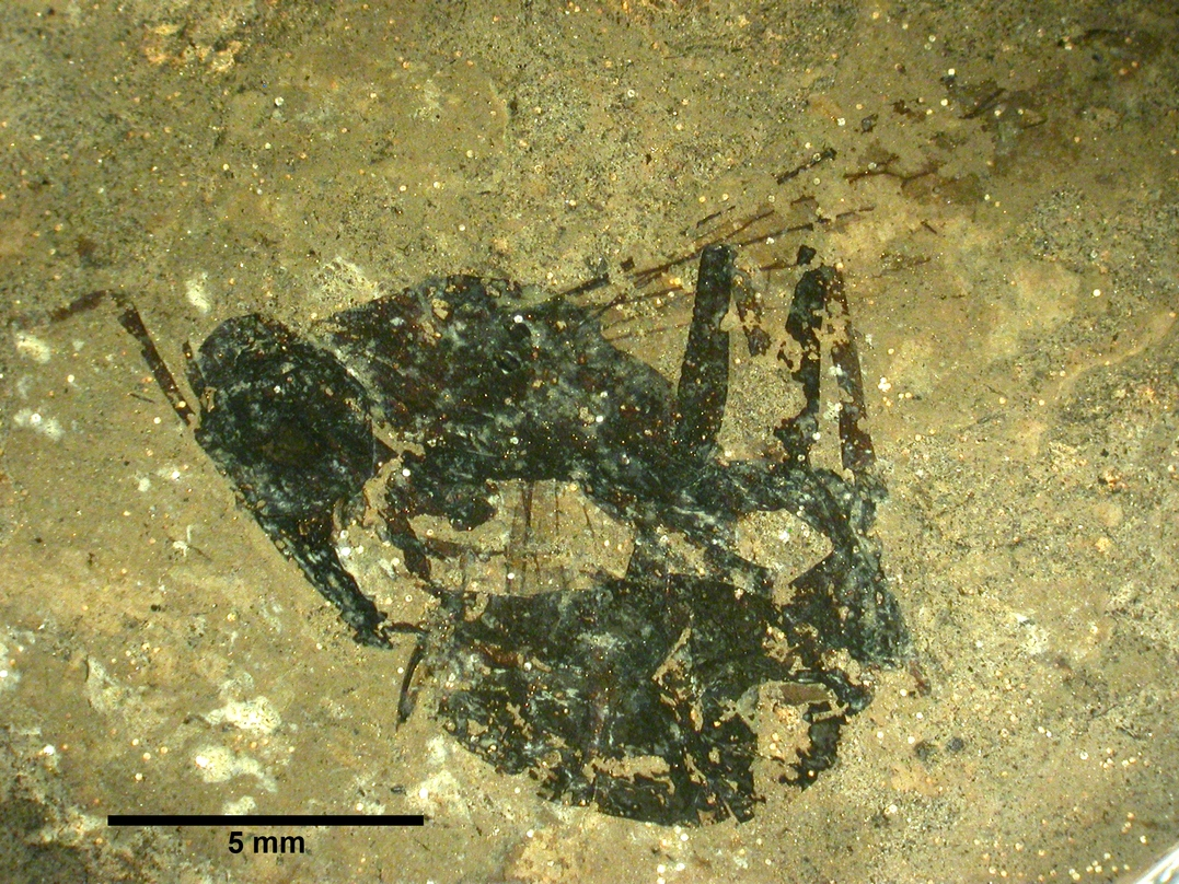 Profile view of the Archimyrmex wedmannae holotype. Specimen "SMFMEI2016"